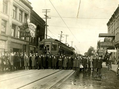 Group photo of businessmen on an excursion trip organized by the Board of Trade and Kitchener Manufacturers Association, advertised as the "Elmira to Erie" train. The chartered train would have left Elmira and passed through Kitchener along streetcar tracks to this point along King Street by the Berlin Light Commission and Brunswick Hotel, before continuing on its way to Port Dover.